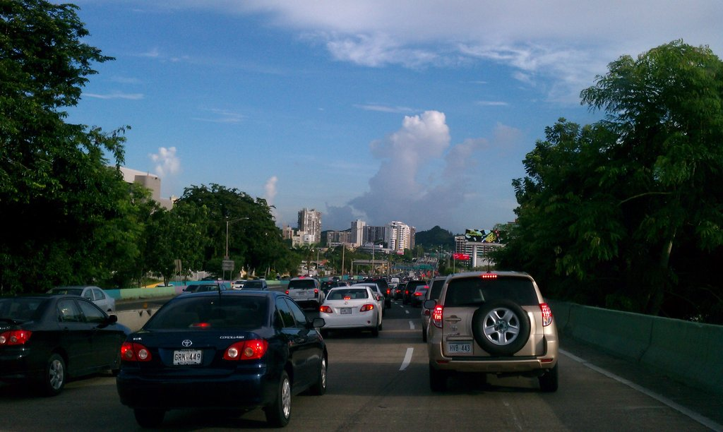 Traffic on Expreso Rafael Martínez Nadal in Puerto Rico